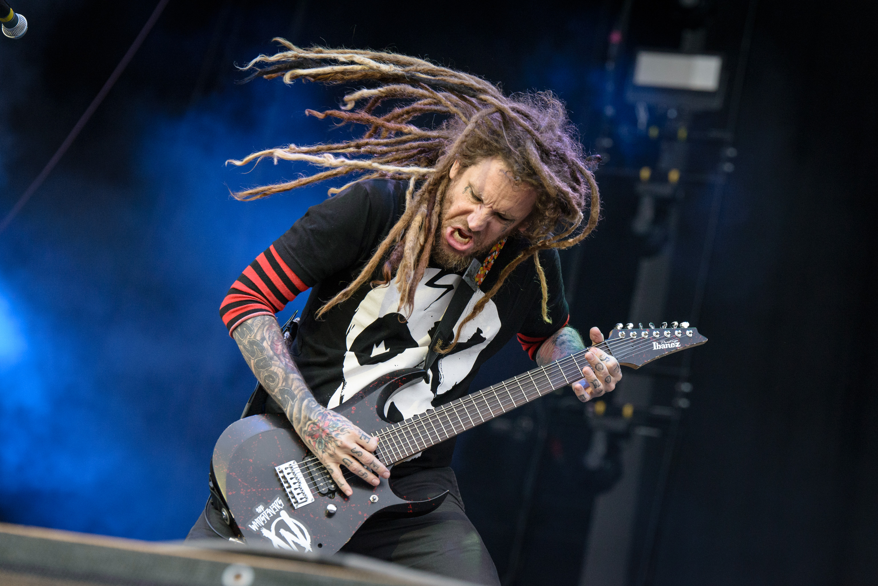 Korn Live @ Rock im Park 2016